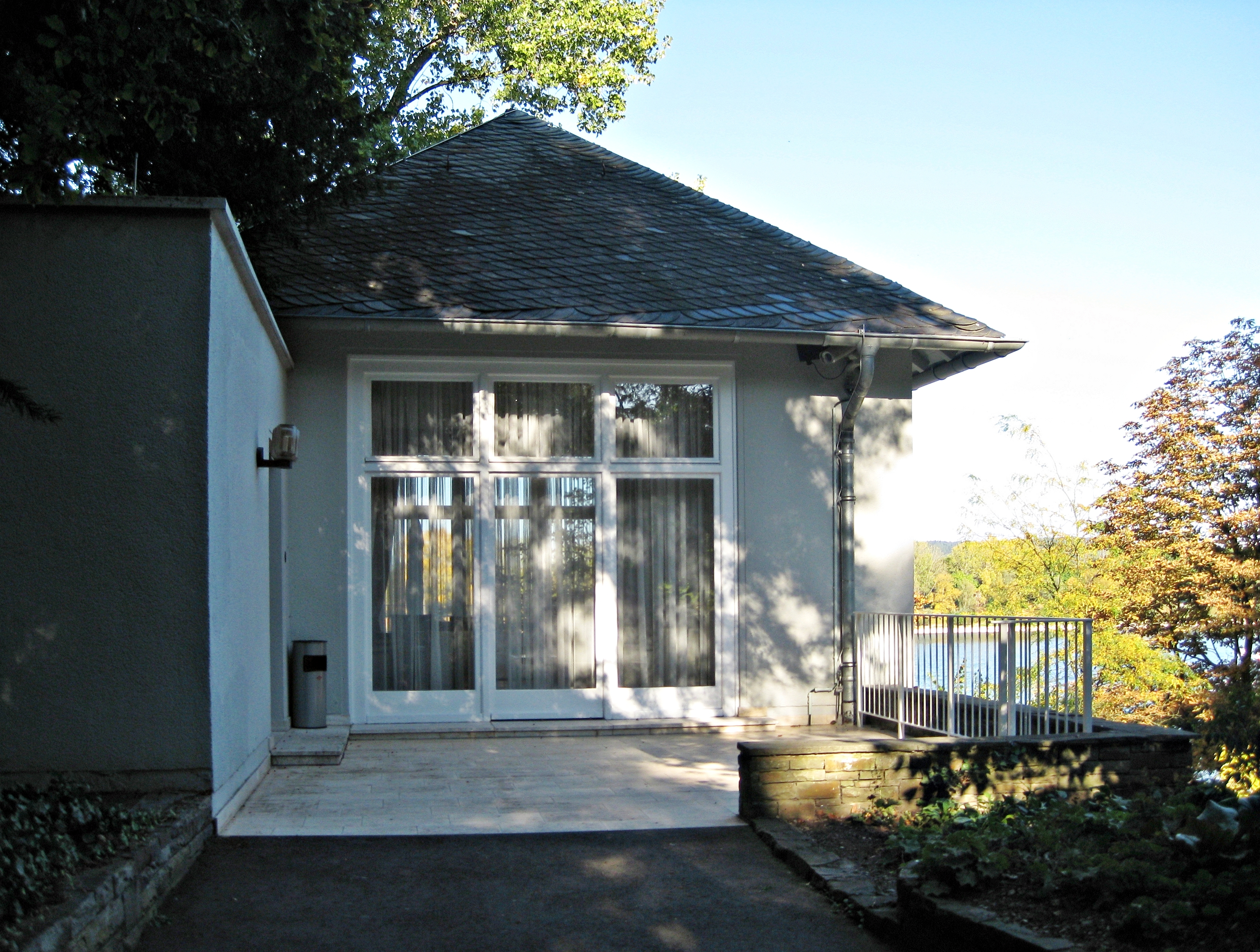 Bonn: Kanzler-Teehaus (Chancellor's Tea House; built in 1955) in the park of the Palais Schaumburg.